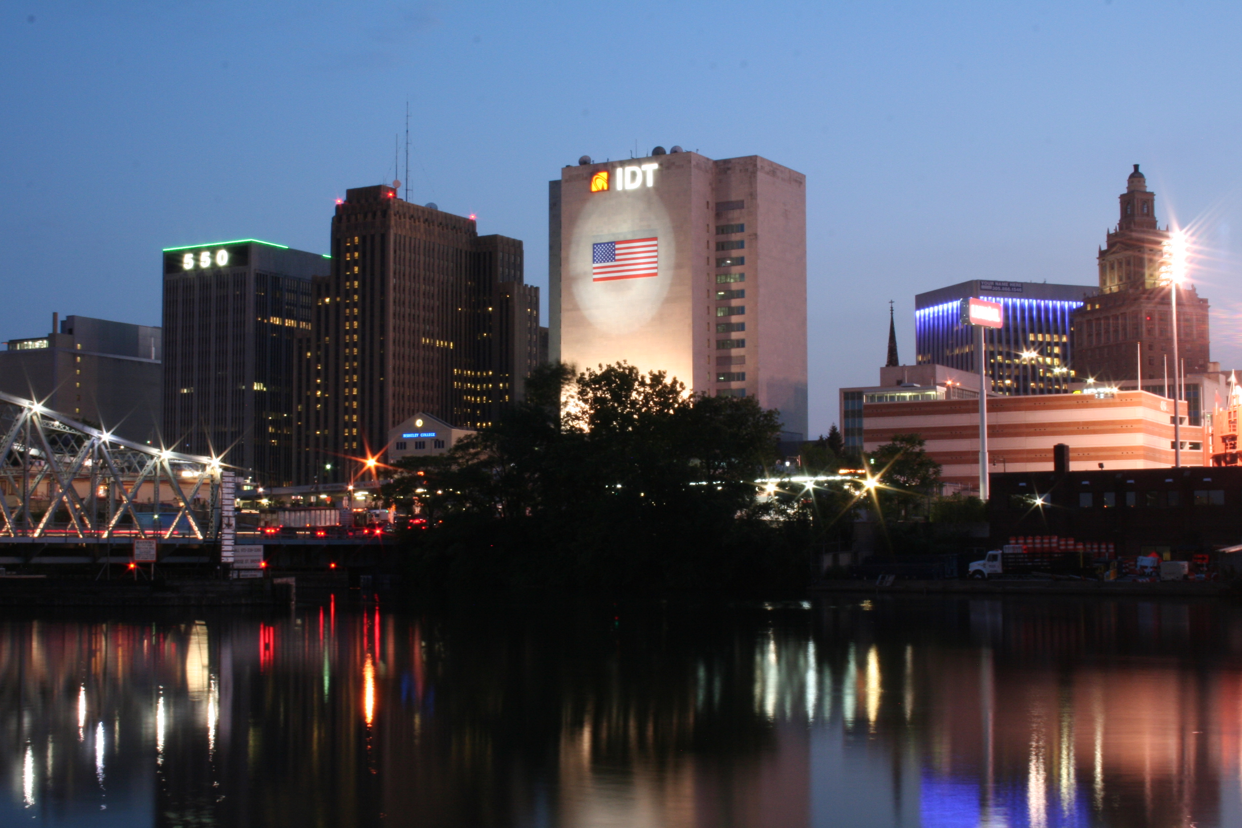 Newark, New Jersey at night